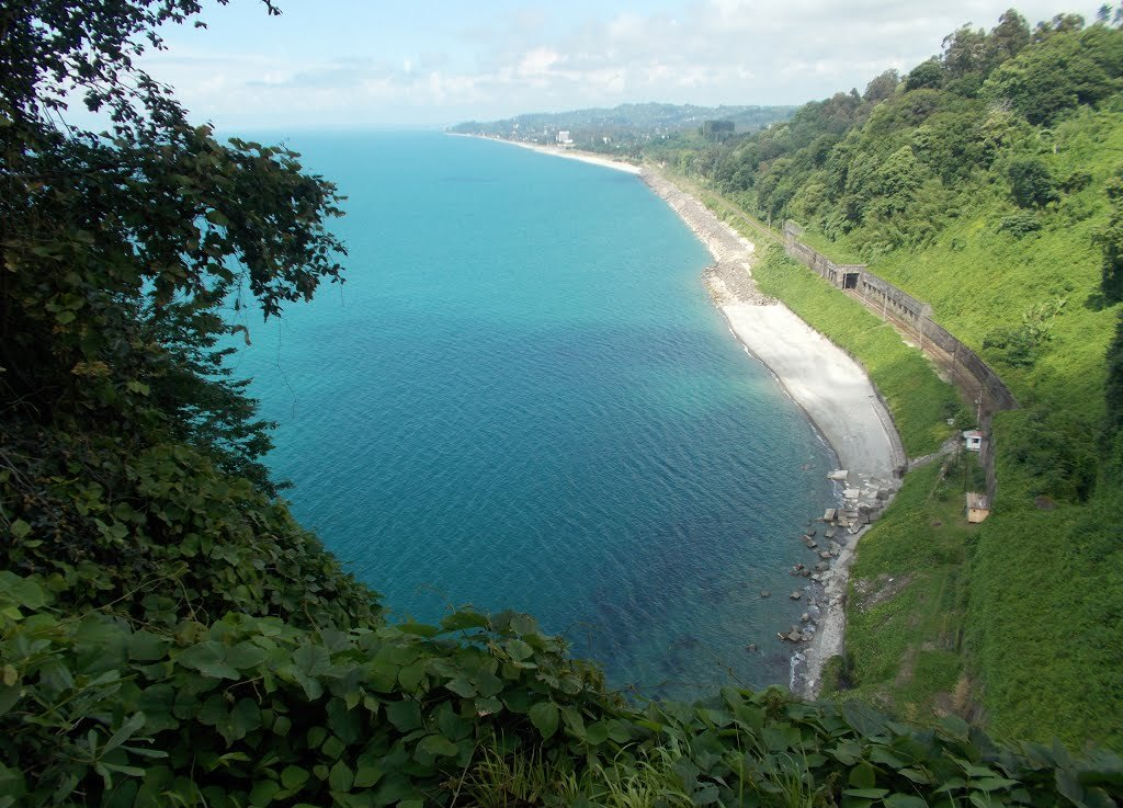 Batumi, Georgia — Botanical Garden